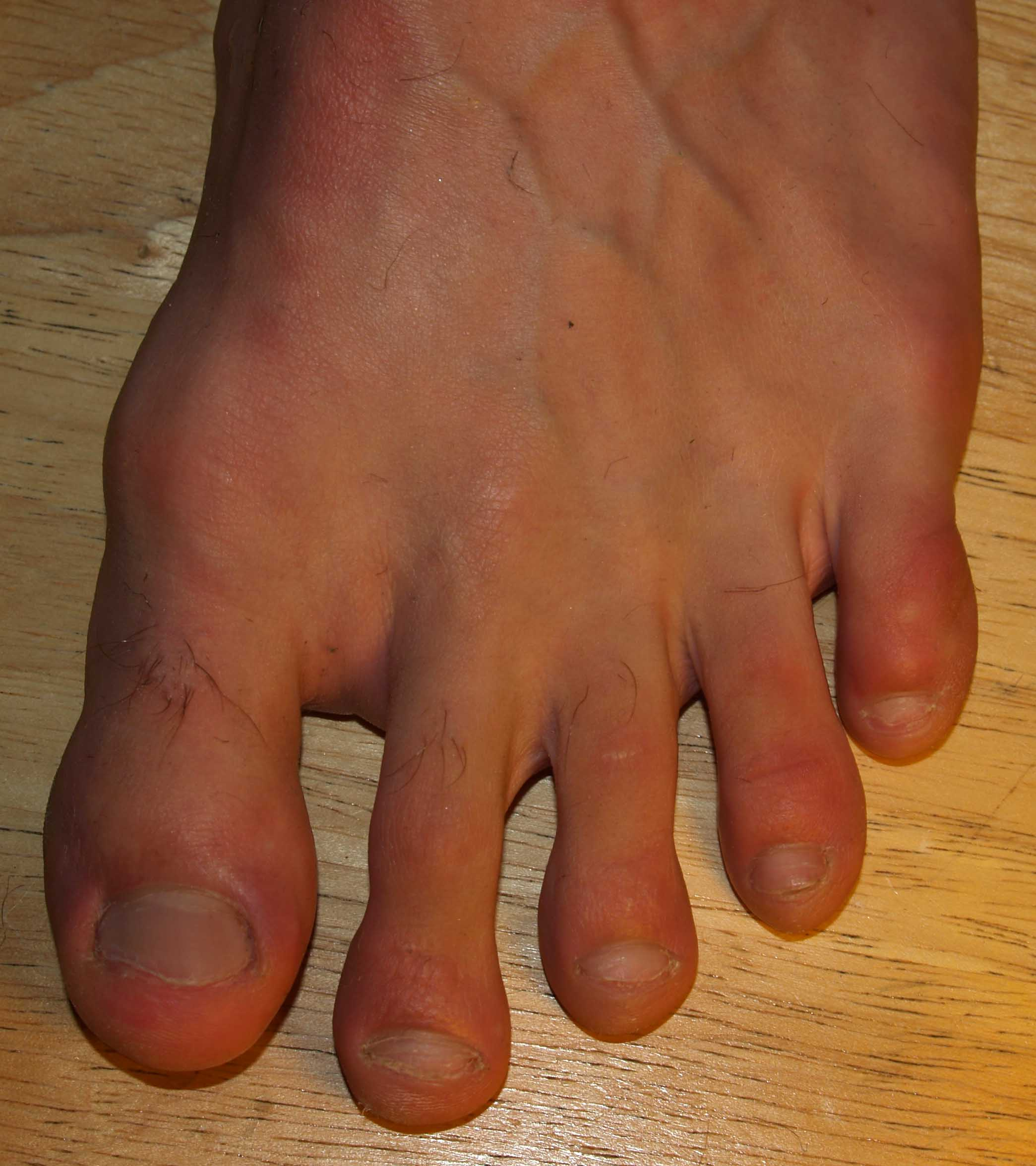 Toes by David Shankbone